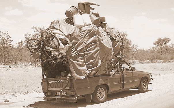 Motorist Beitbridge